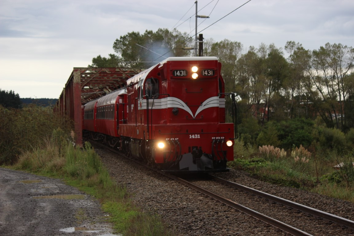 DA 1431 heads north across the Rangitikei River on an excursion towards Glenbrook in Auckland.